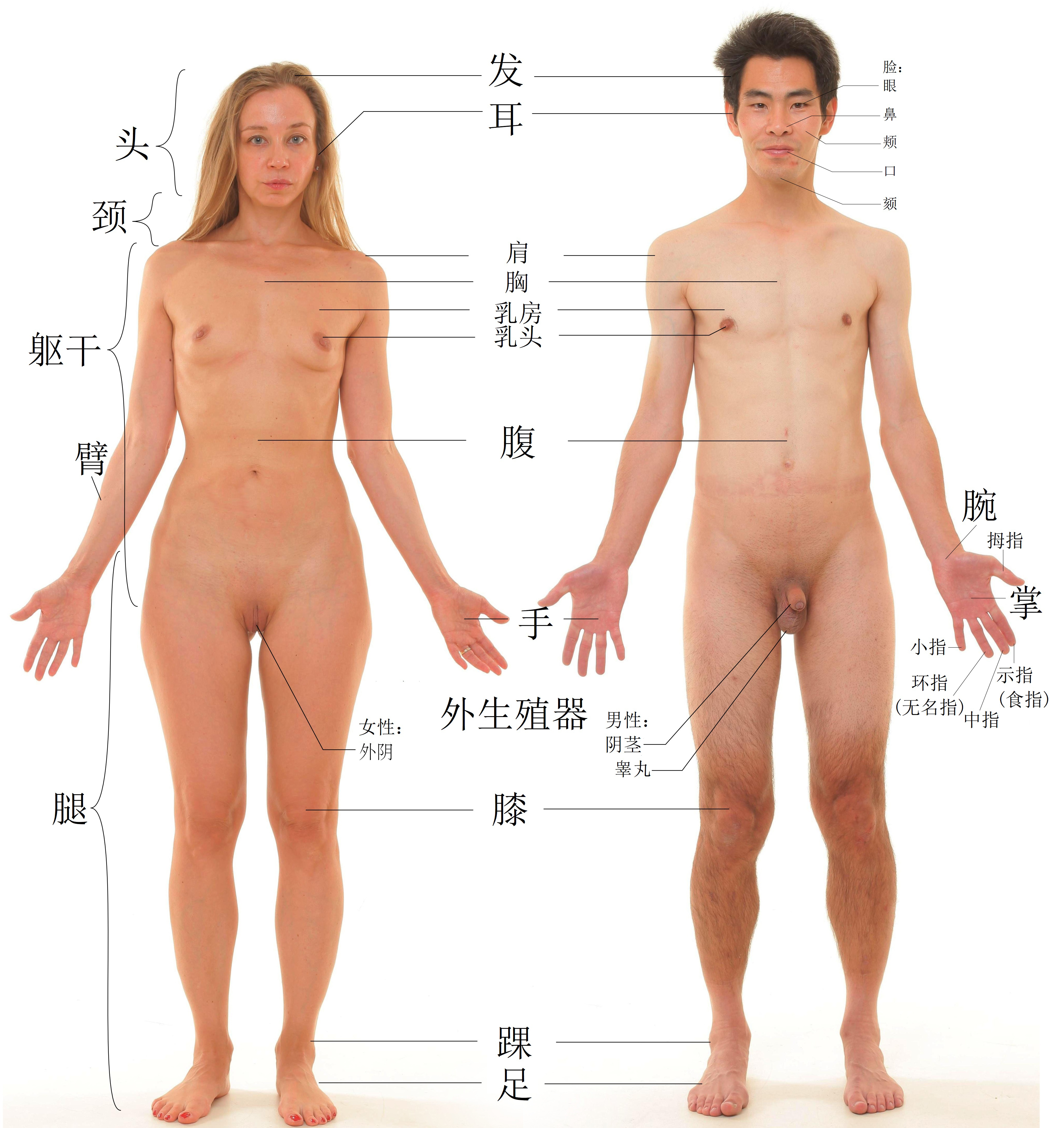 Naked female and male human body with labels.